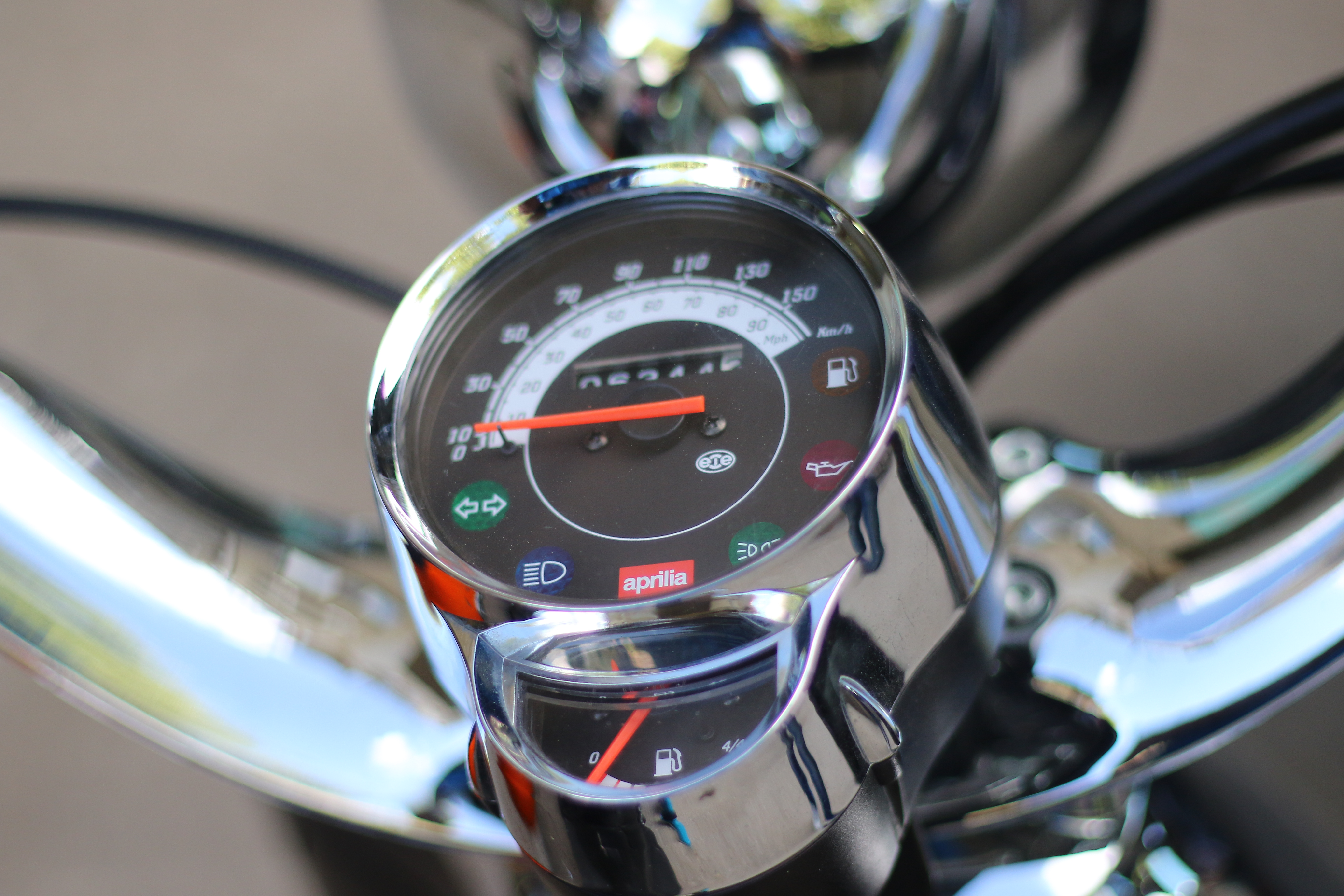 Bike speedometer